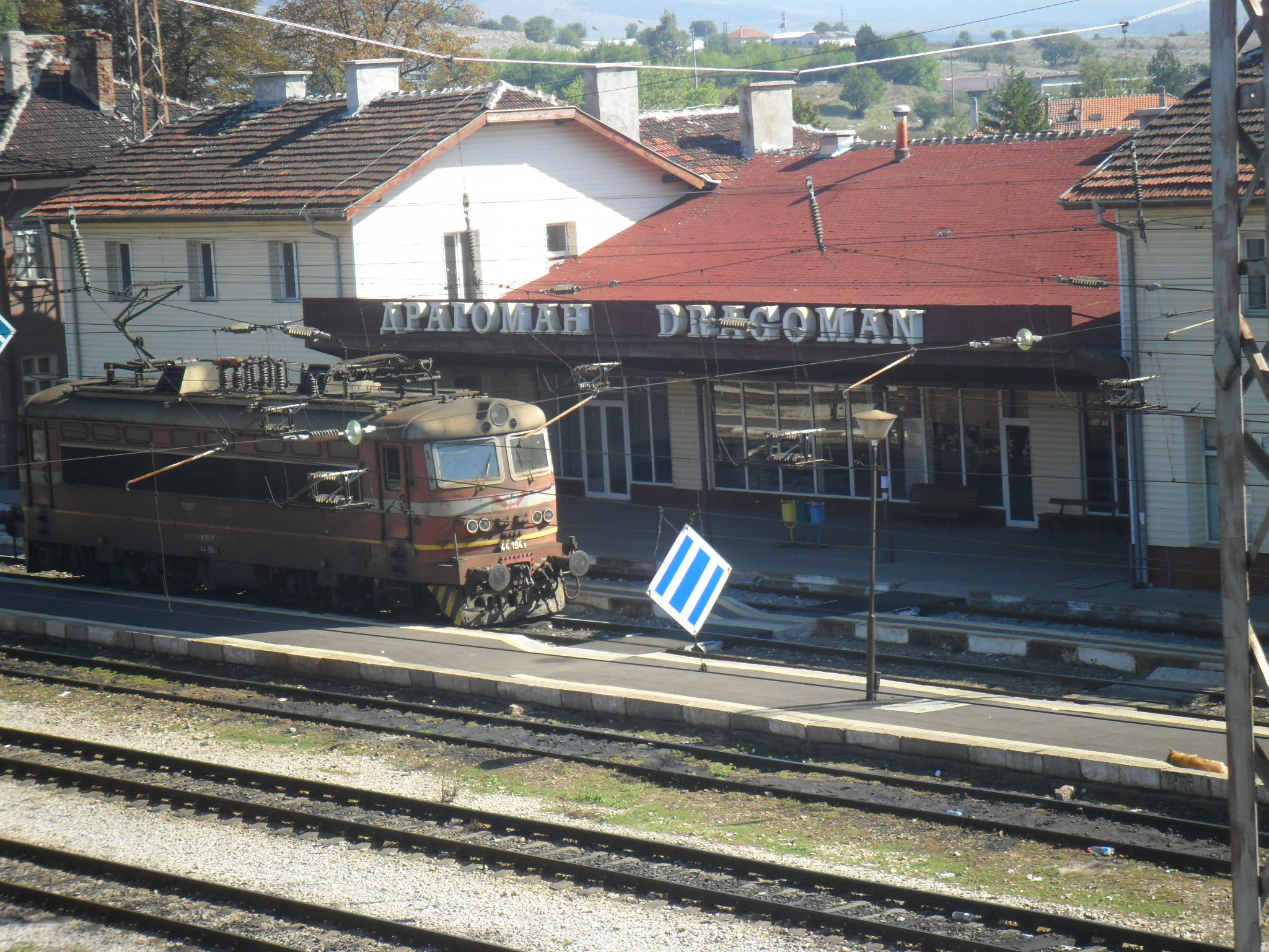 Dragoman train station